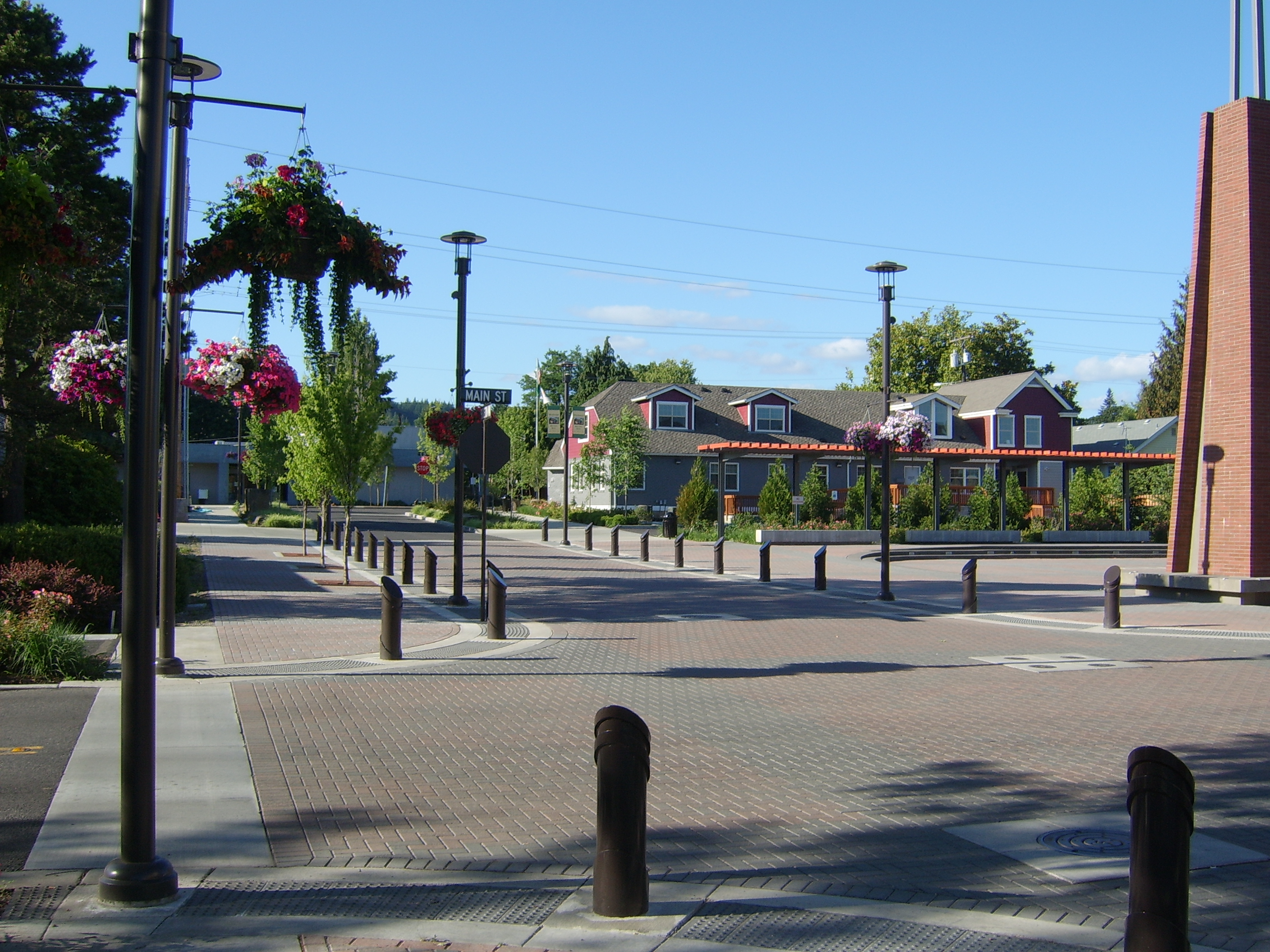 Image of downtown Washougal, Washington facing north.